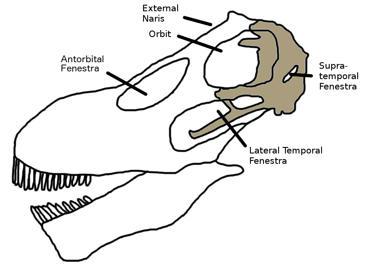 Diagram illustrating the skull of Amargasaurus, known material in brown. Fenestra are labelled. Based on: Novas, Fernando E. (2009). The age of dinosaurs in South America. Bloomington: Indiana University Press. ISBN 978-0-253-35289-7 Page 175 Fig. 5.5A